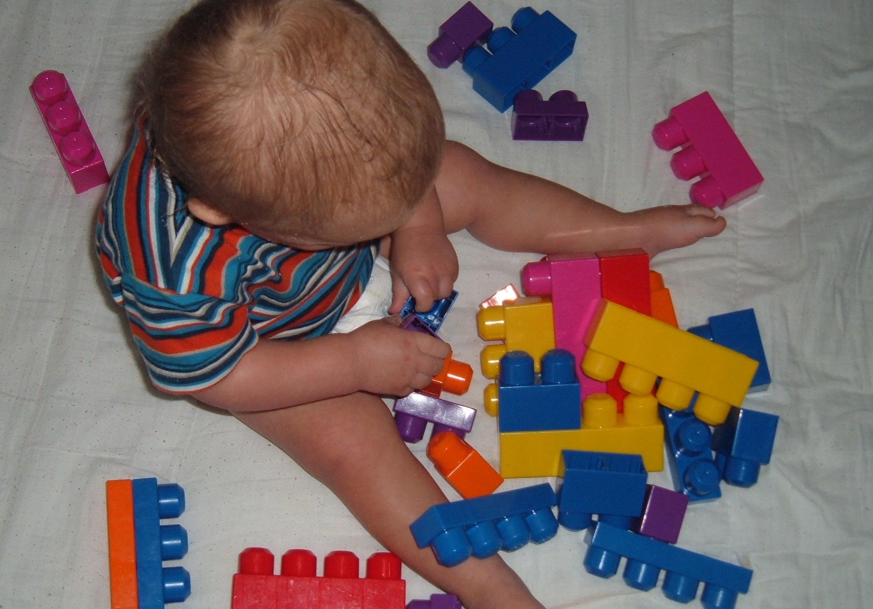 Mega blocks: blocks for children under 2 years old.